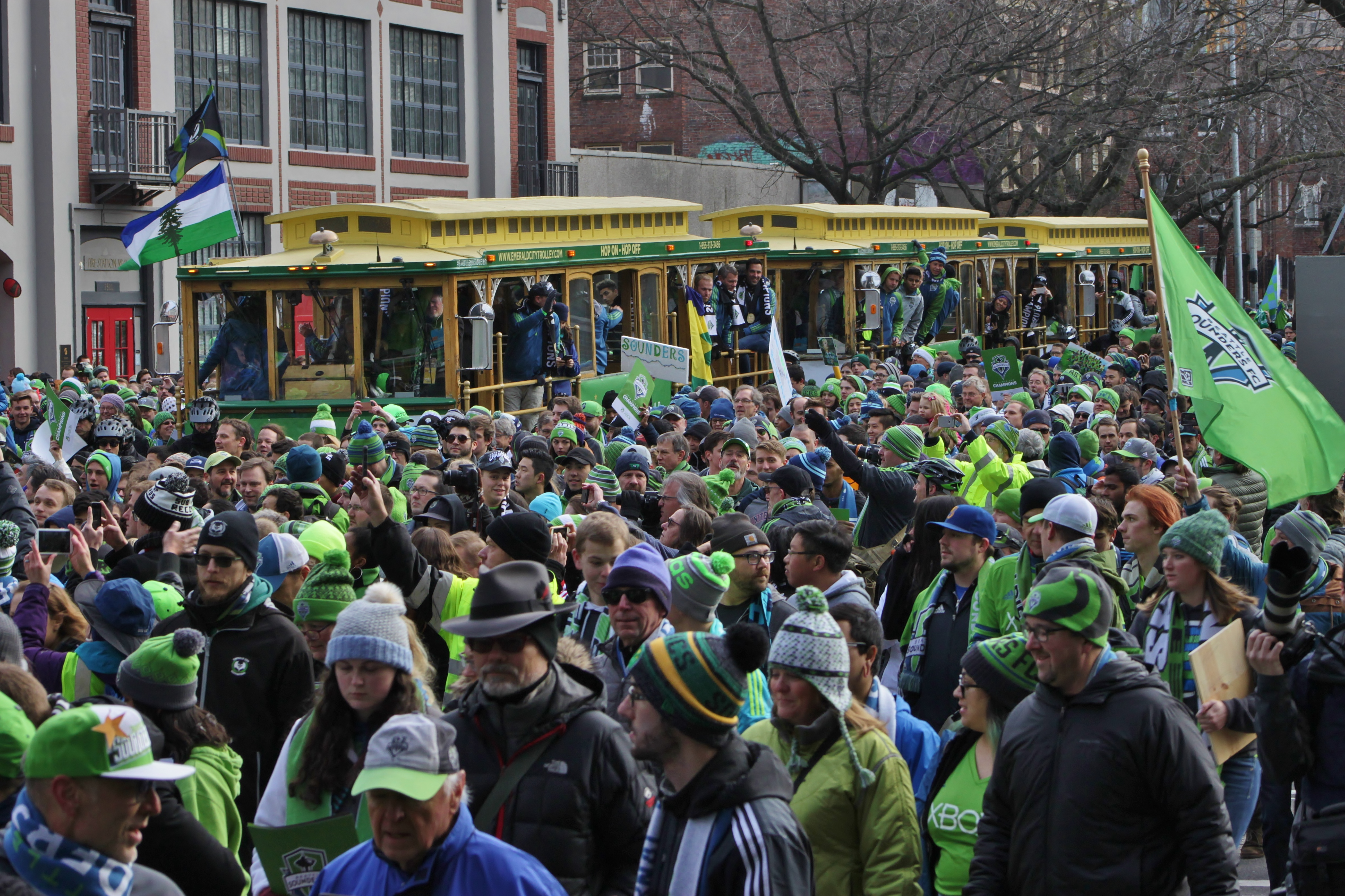 Seattle Sounders fans in Downtown Seattle, participating in a victory rally following the team's MLS Cup 2016 victory.